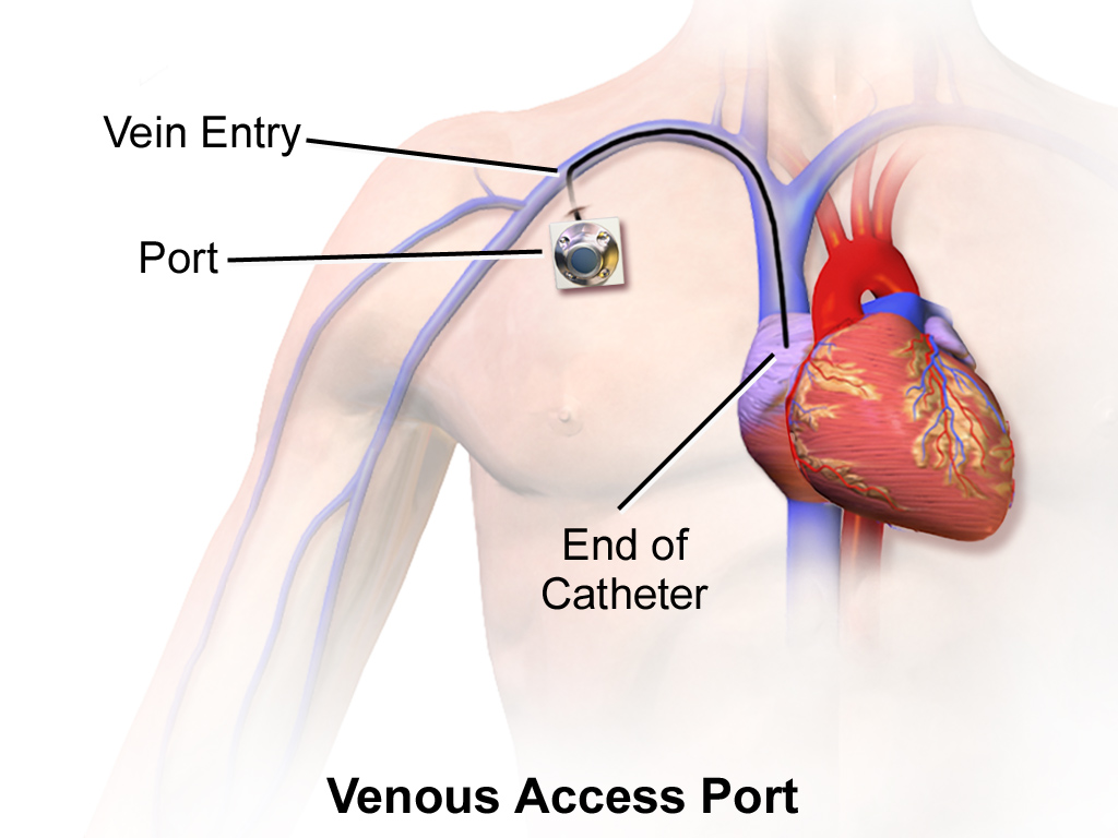 Illustration depicting a catheter in a venous access port